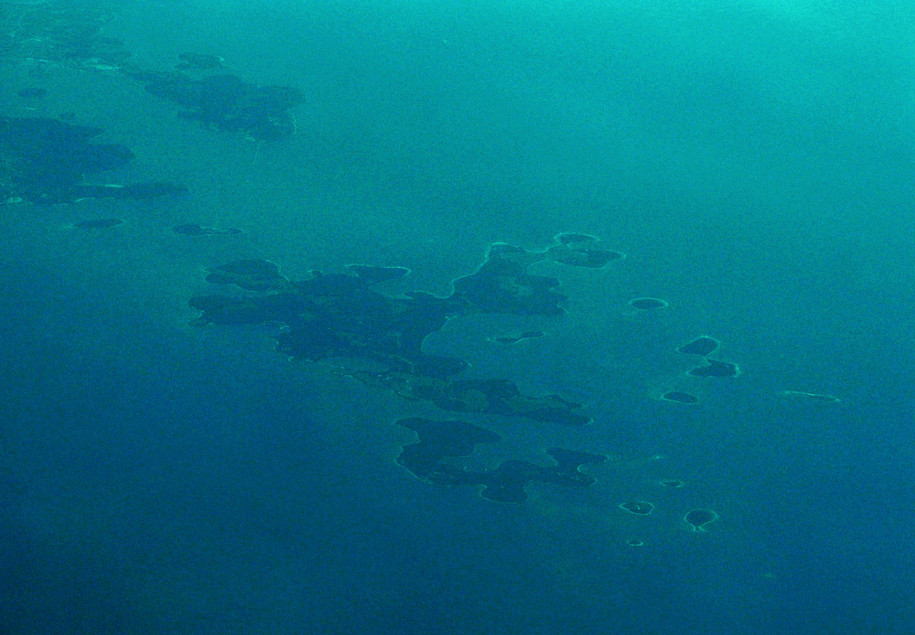 Brijuni islands from the airm Croatia